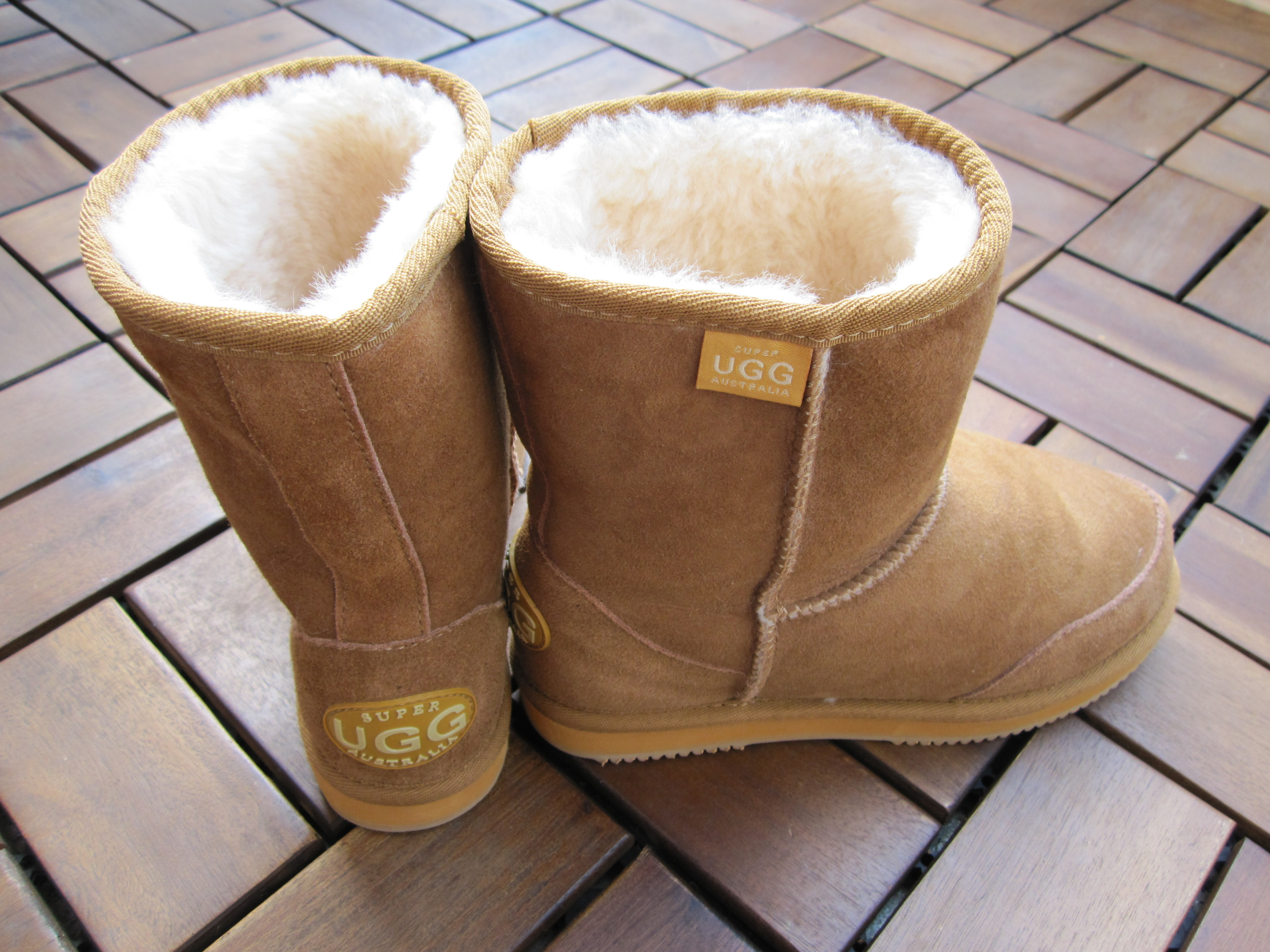 Super Ugg Boots